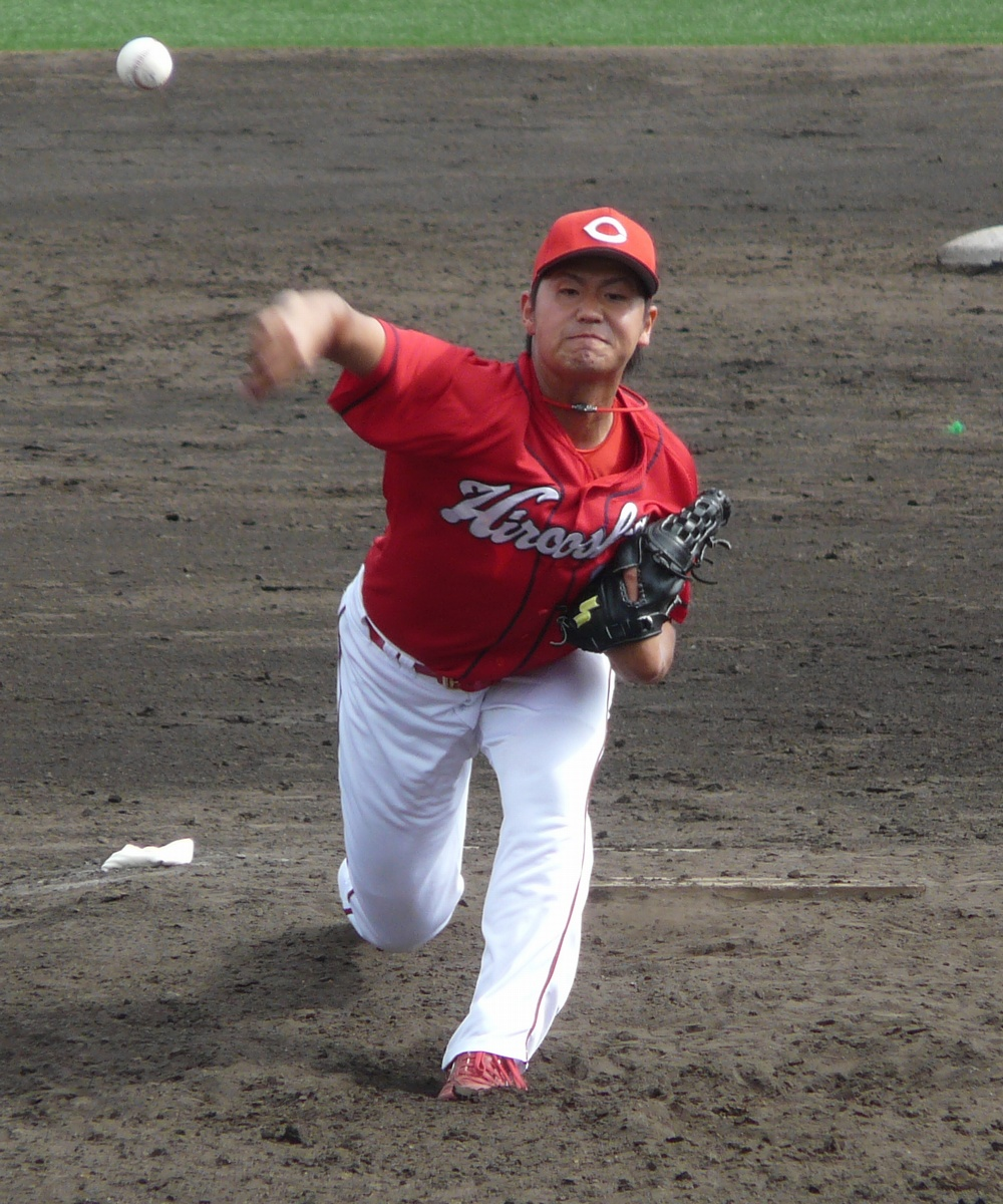 Yuki Tsurumoto, pitcher of the Hiroshima Toyo Carp, at Kobe Sports Park Sub Baseball Ground.